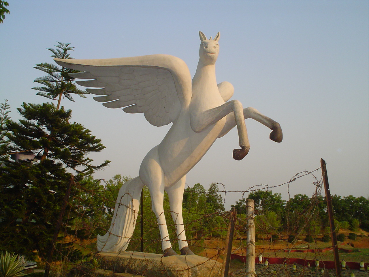 Statue of Ponkhiraj (The king of bird), A mythological winged horse, in Sopnopuri, Dinajpur.